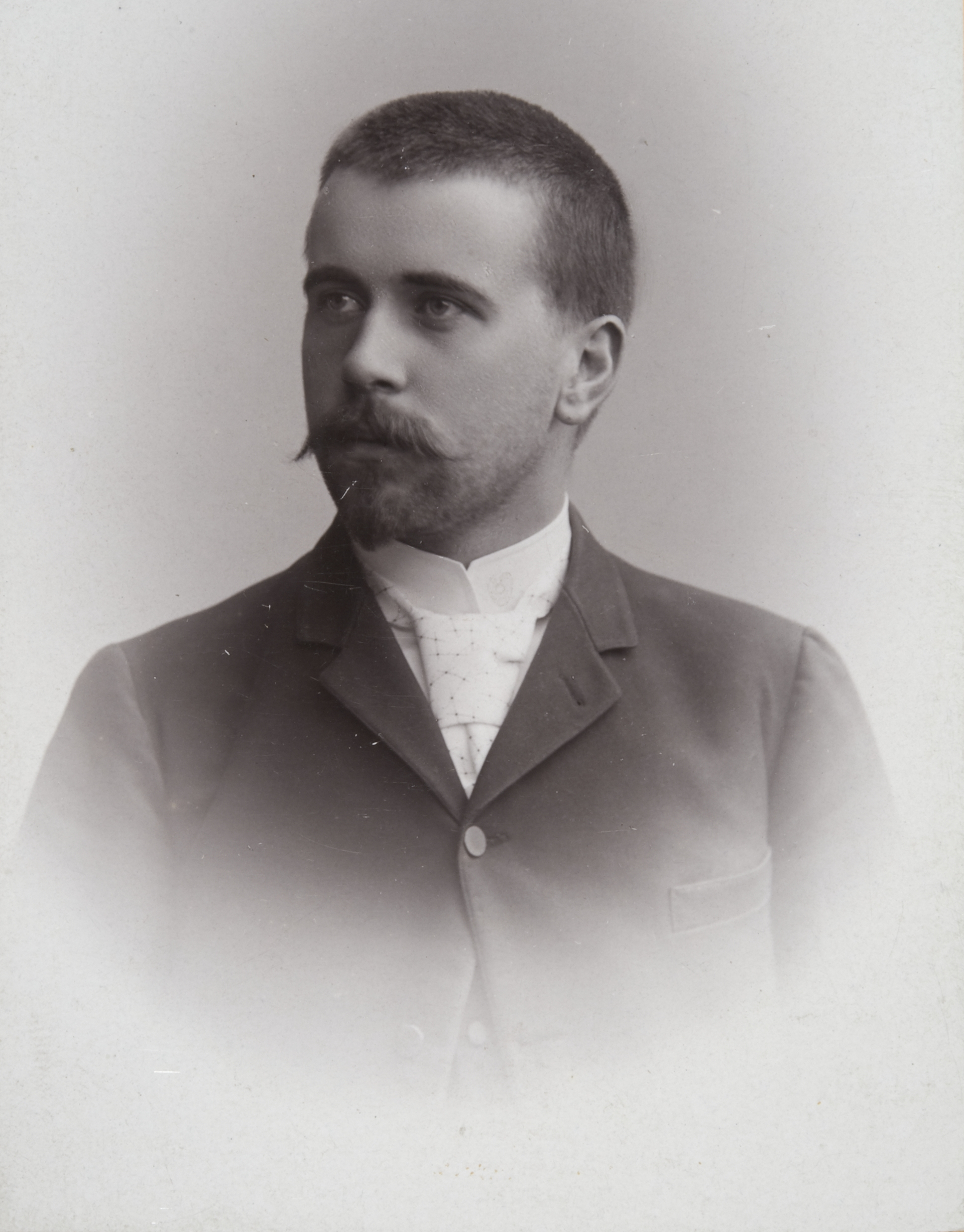 Photograph of the Finnish mathematician Ernst Lindelöf (1870–1946).